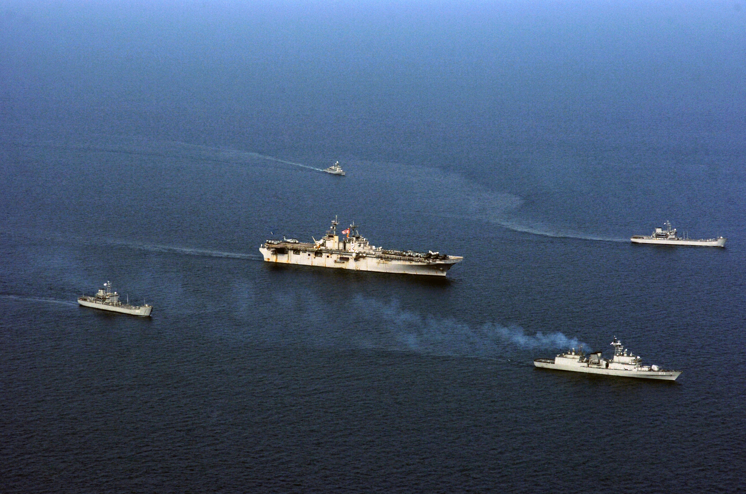 060331-N-5067K-042 Yellow Sea (March 31, 2006) - Republic of Korea (ROK) ships Pyoun Teak (ATS 27) Top, ROKS Hyoangro Bong (LST 683) right, ROKS Seongin Bong (LST 685), and ROKS Yang Manchu (DDG 973) escort amphibious assault ship USS Essex (LHD 2) during the Reception, Staging, Onward-Movement and Integration (RSOI) and Foal Eagle 2006 exercise. Ships and units of Commander, Task Force Seven Six (CTF-76) and embarked elements of the 31st Marine Expeditionary Unit (MEU) have been participating in RSOI/FE 06, annual joint/combined exercise to strengthen interoperability between U.S. and ROK. U.S. Navy photo by Photographer's Mate 1st Class Michael D. Kennedy (RELEASED)